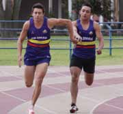 relay race (athletics)